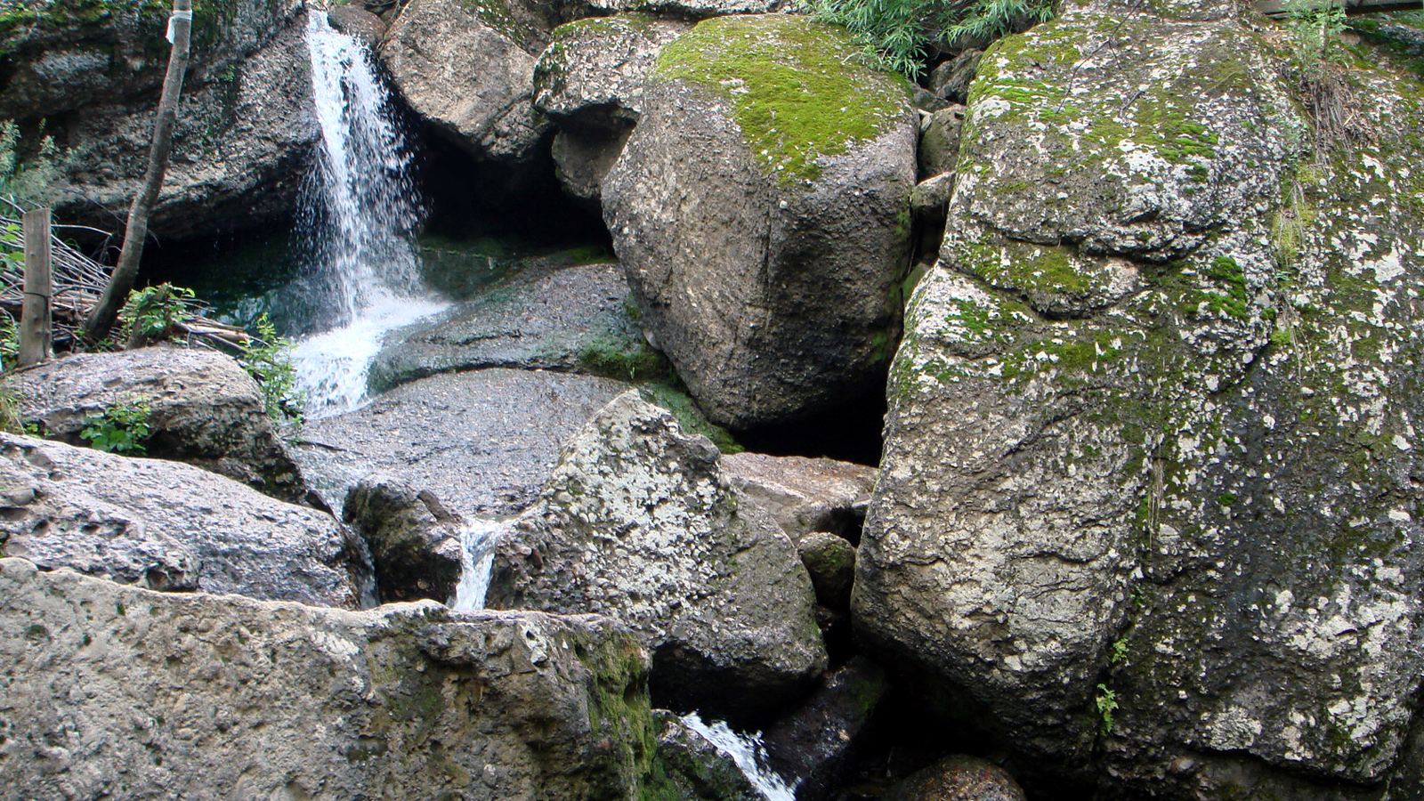 Kuk-Karauk (Kukrauk) waterfall at summer, Bashkiria, Russia